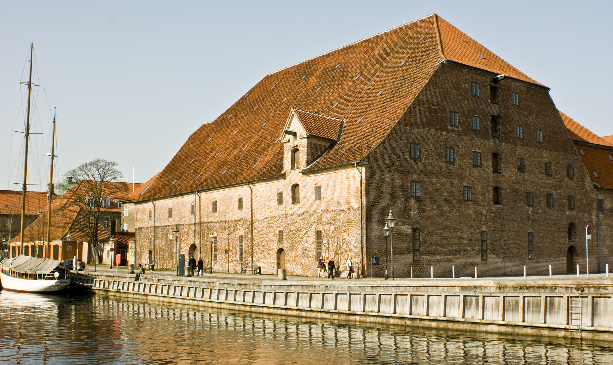 Old house in Copenhagen, Denmark - The former "Kongens Bryghus" / "Kings Brewery" at Frederiksholm Kanal.